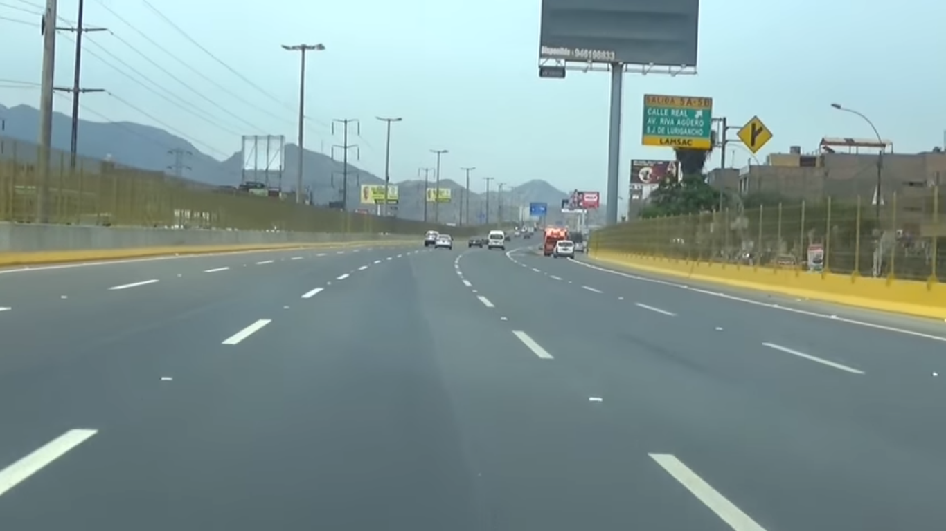 Highway in Peru